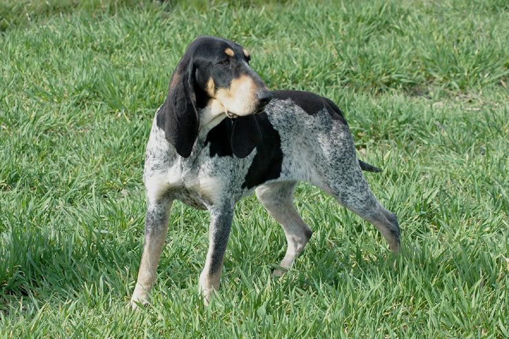 Small Blue Gascony Hound, female "Cita z Beckova" from kennel "Le Bleu Cardinalis FCI", Poland. The owner - Katarzyna Bujko